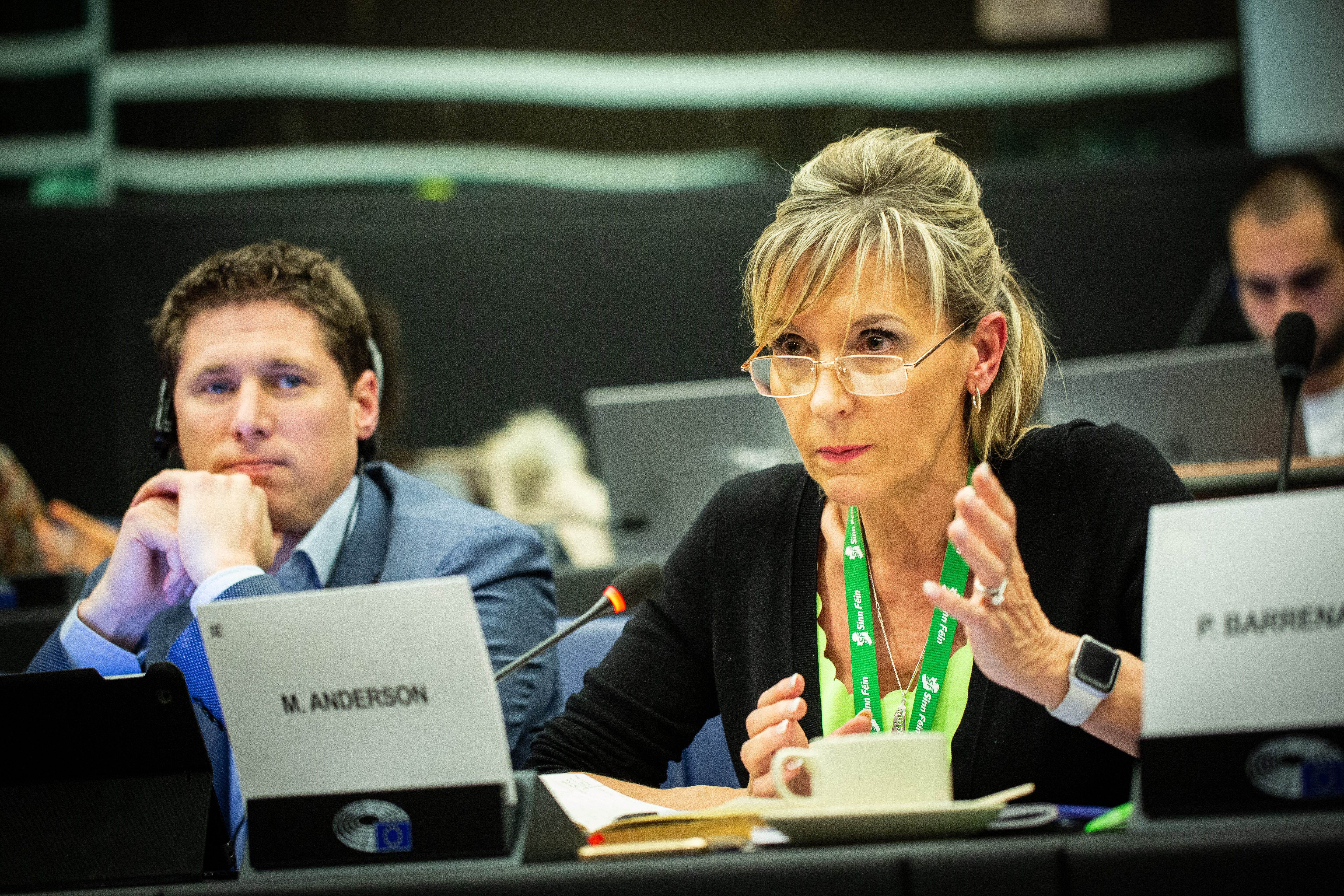 EU Chief Brexit Negotiator Michel Barnier